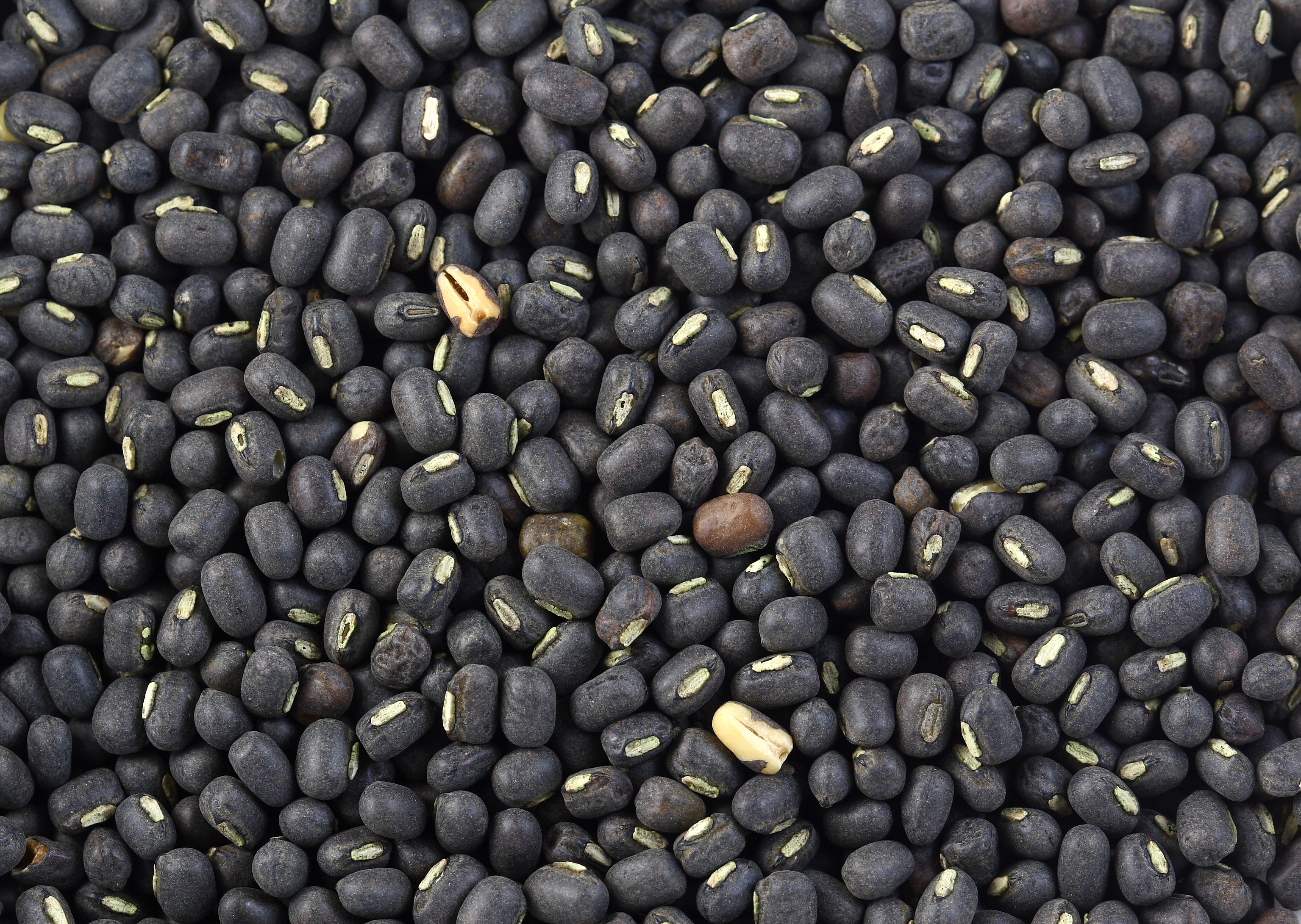 Black Gram (Vigna mungo) Seeds.